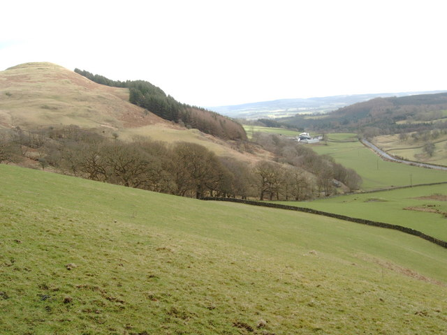 Tynron Doon to the left and Clonrae Farm below As seen from Craigturra